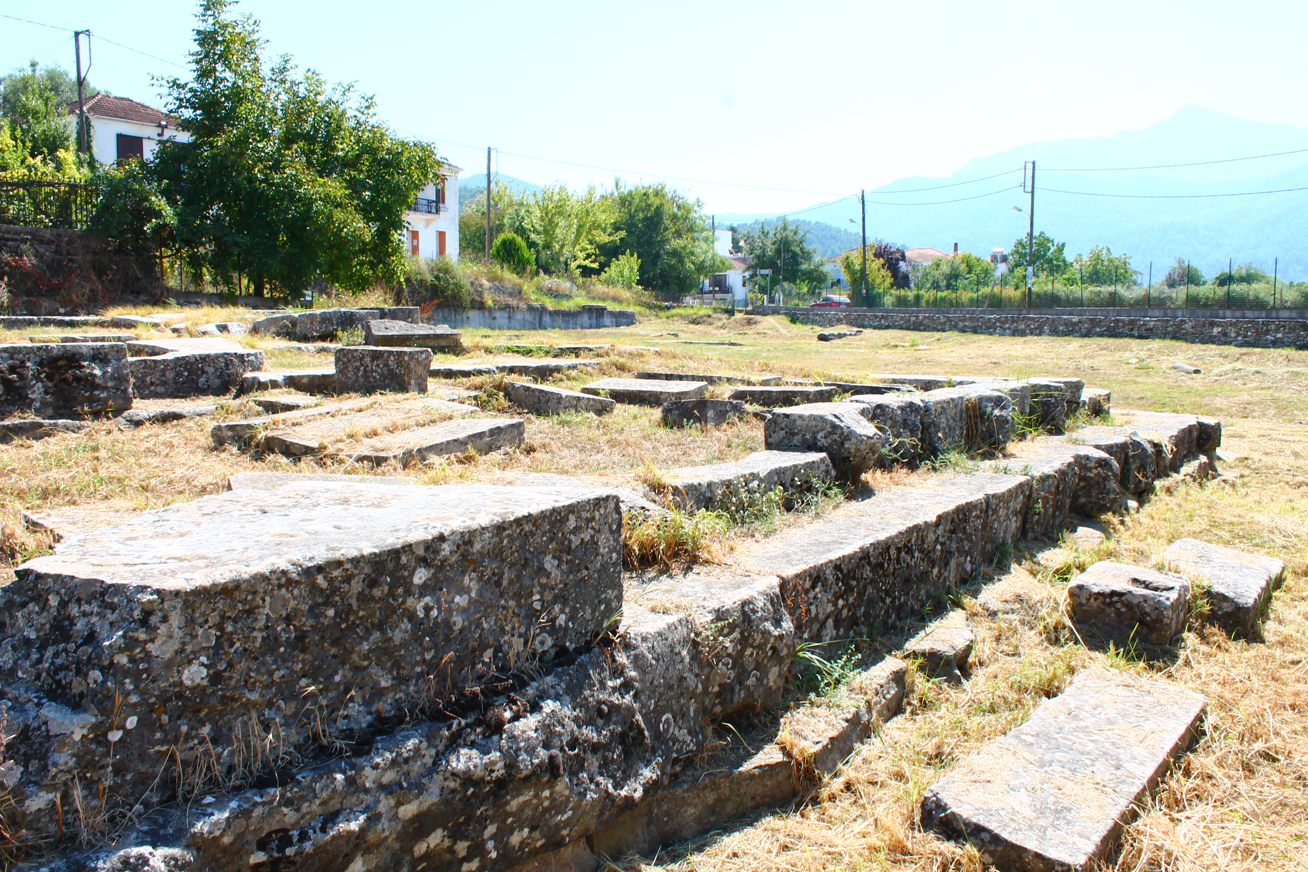 Heraklion_Limenas_Thasos_Greece